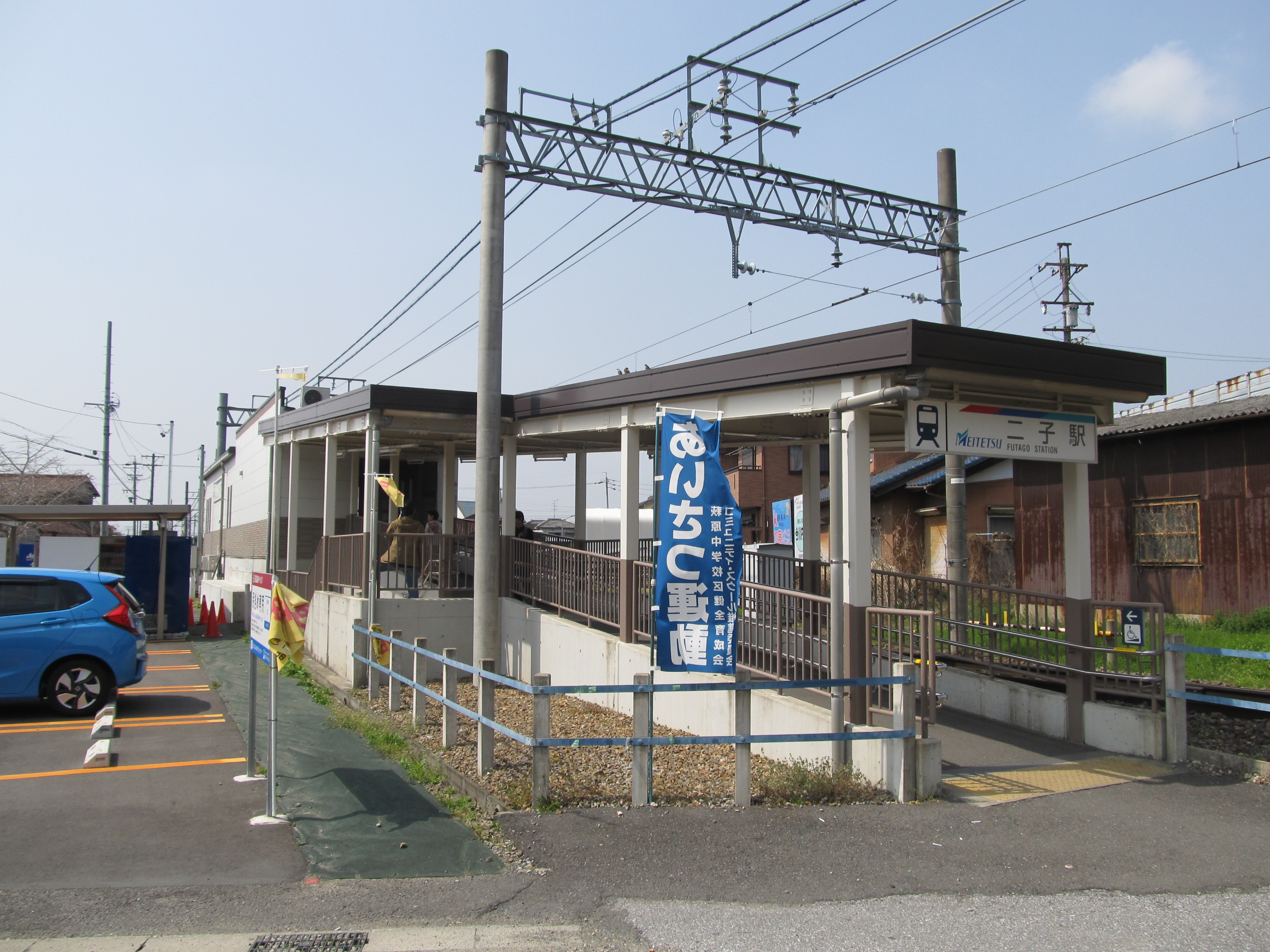 Nagoya Railroad Bisai Line Futago Station Gate.